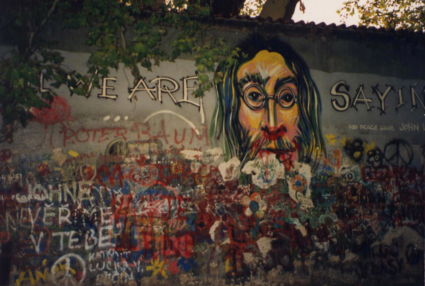 John Lennon peace mural wall, Praha.